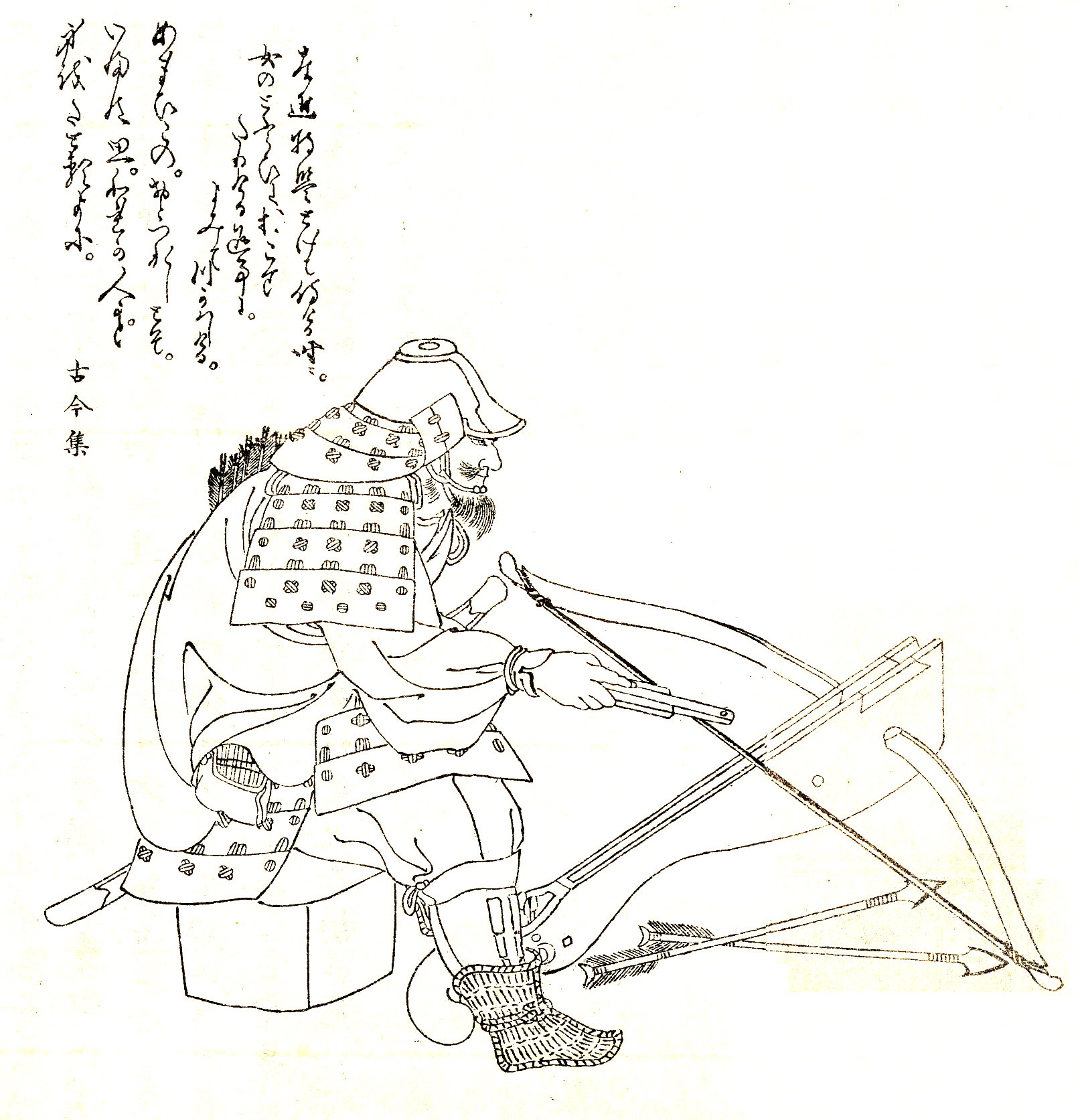 Ono no Harukaze(小野春風) was a japanese officer in Heian period.